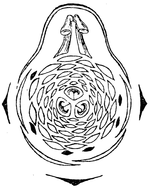 Flower diagram of Aconitum napellus